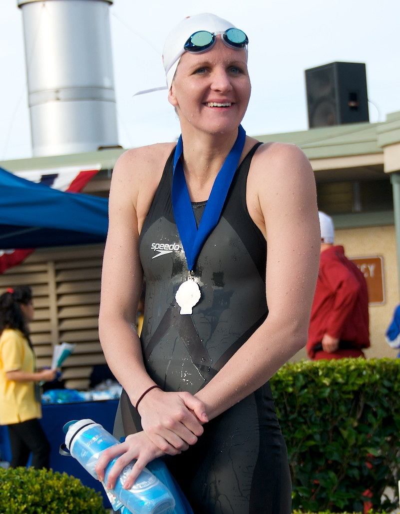 Olympic gold medalist Kirsty Coventry.